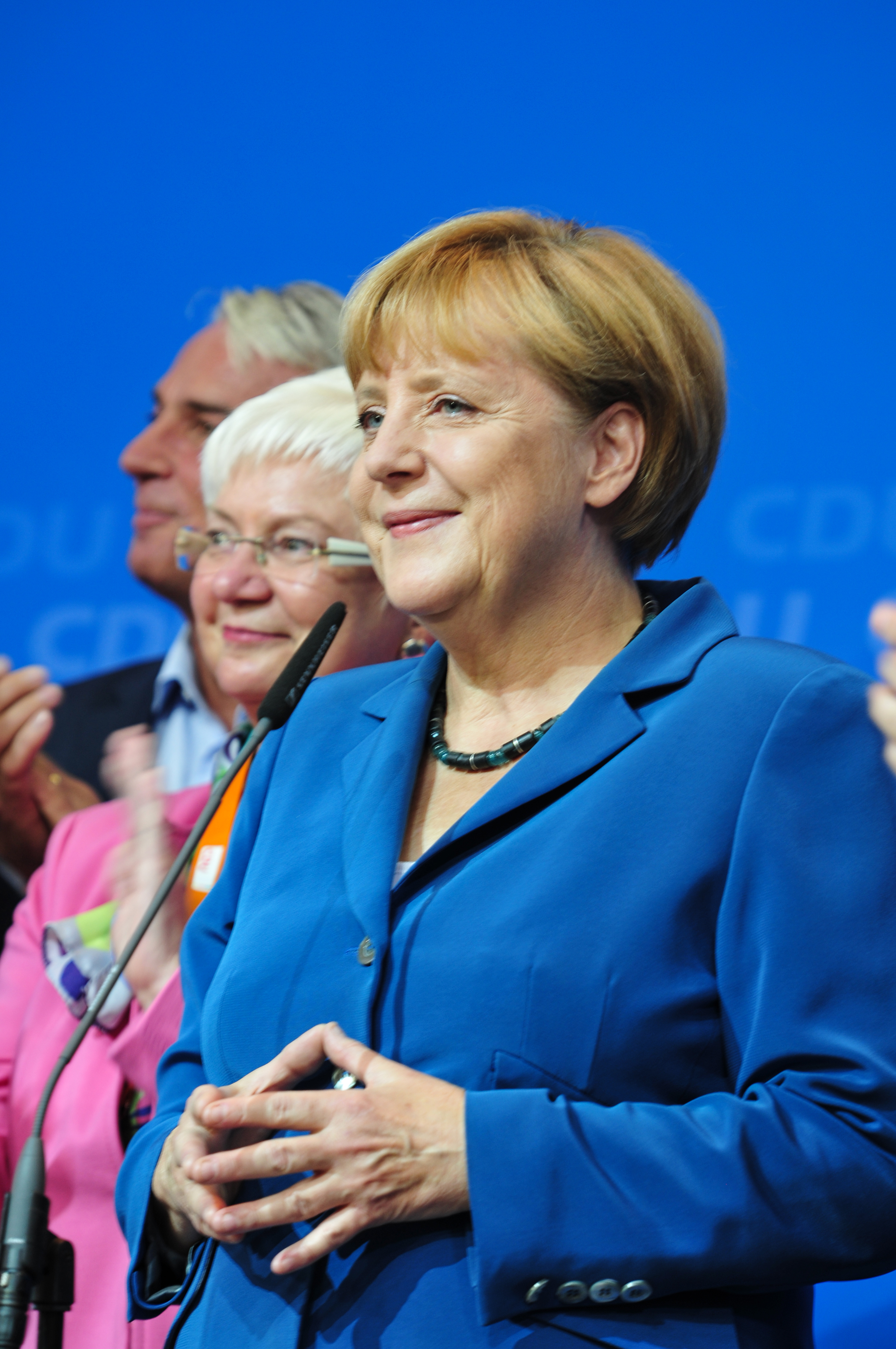 Zur Bundestagswahl 2013 wurden einige Freiwillige von den Parteien akkreditiert, so dass Fotos während des Wahlabends angefertigt werden konnten. 22. September in Berlin